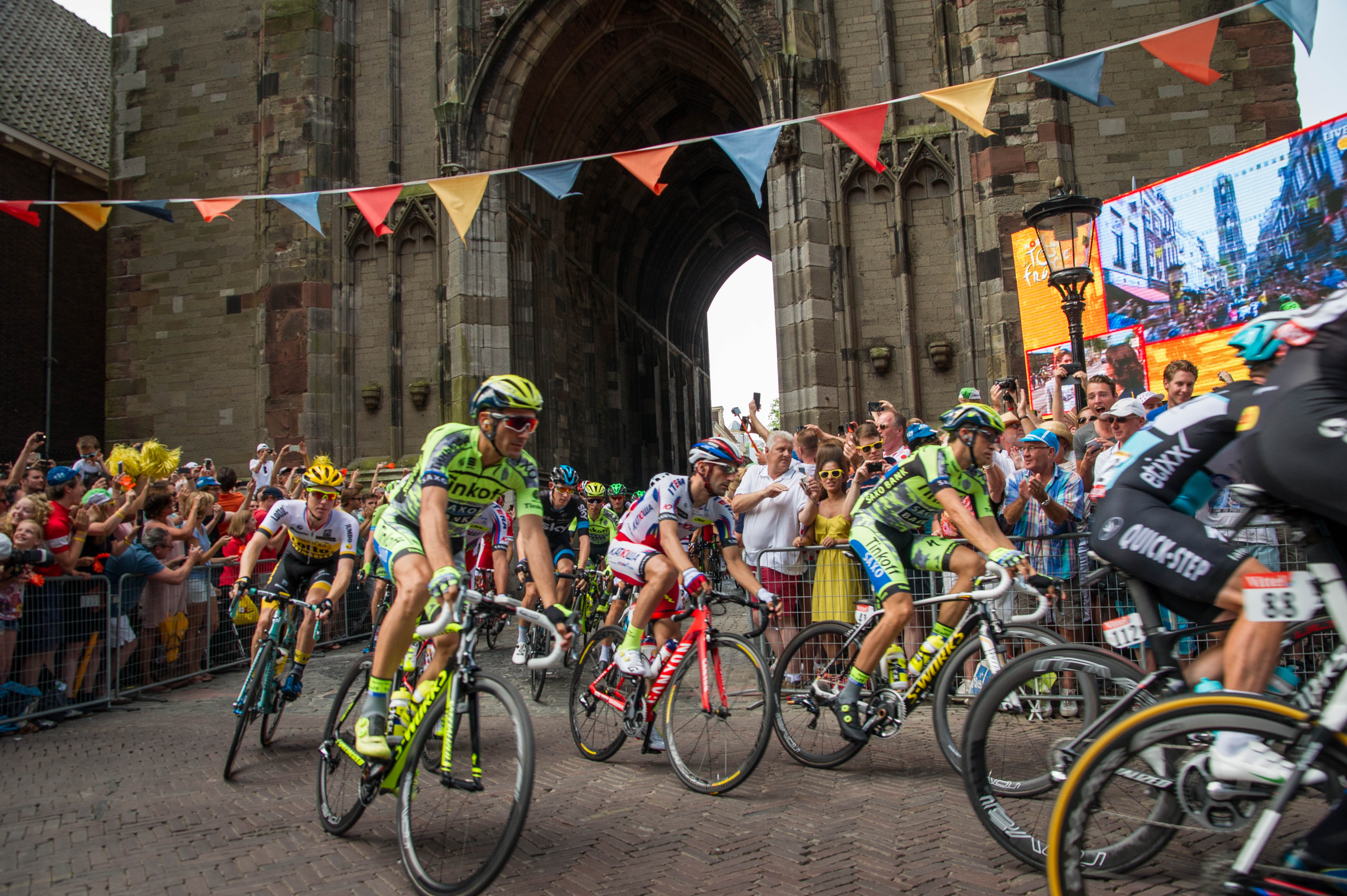 Second stage of the 2015 Tour de France - the cyclists pass under the Dom Tower in Utrecht.